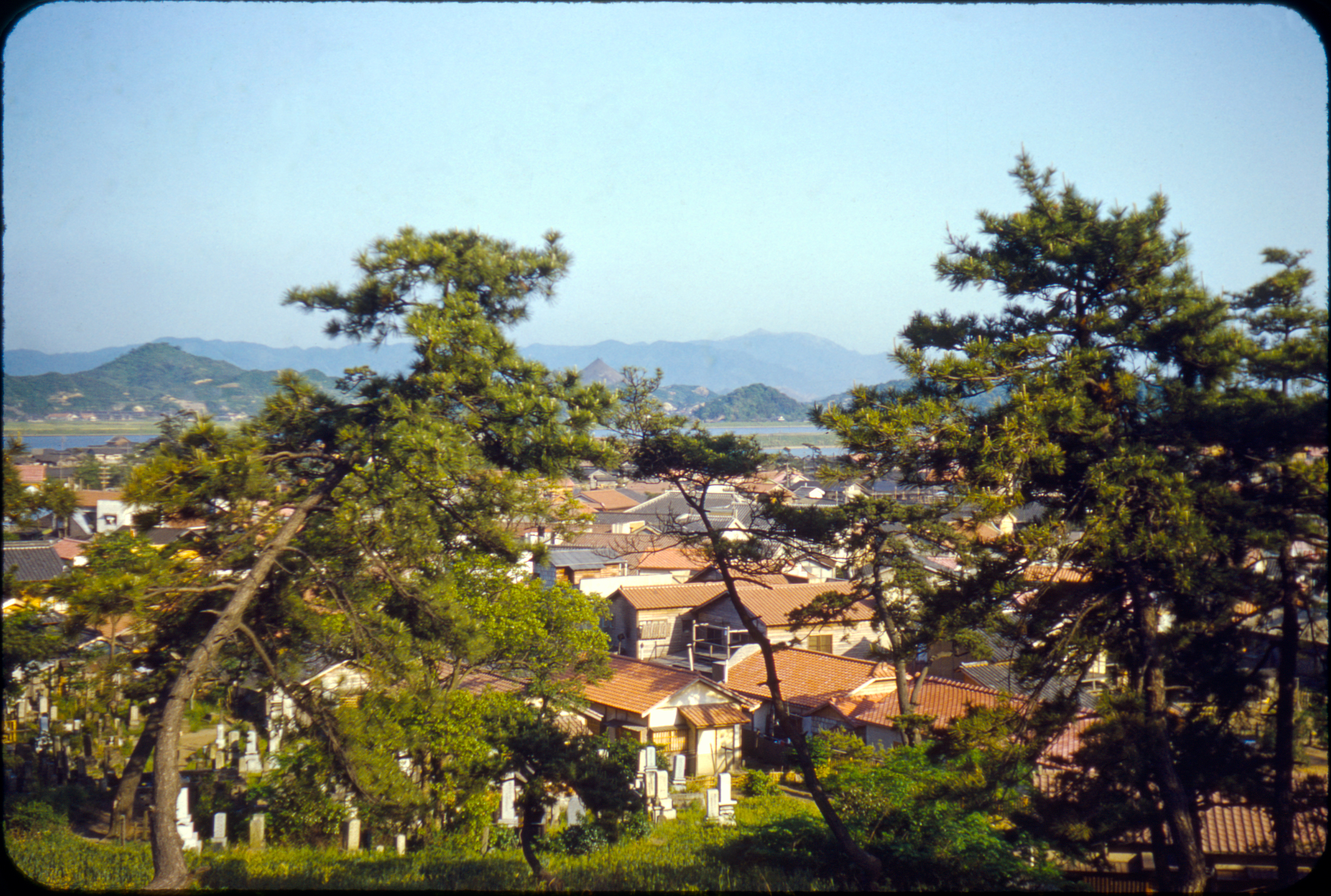 Burial site on hill above town. New scan from a 57-year-old Kodachrome slide.